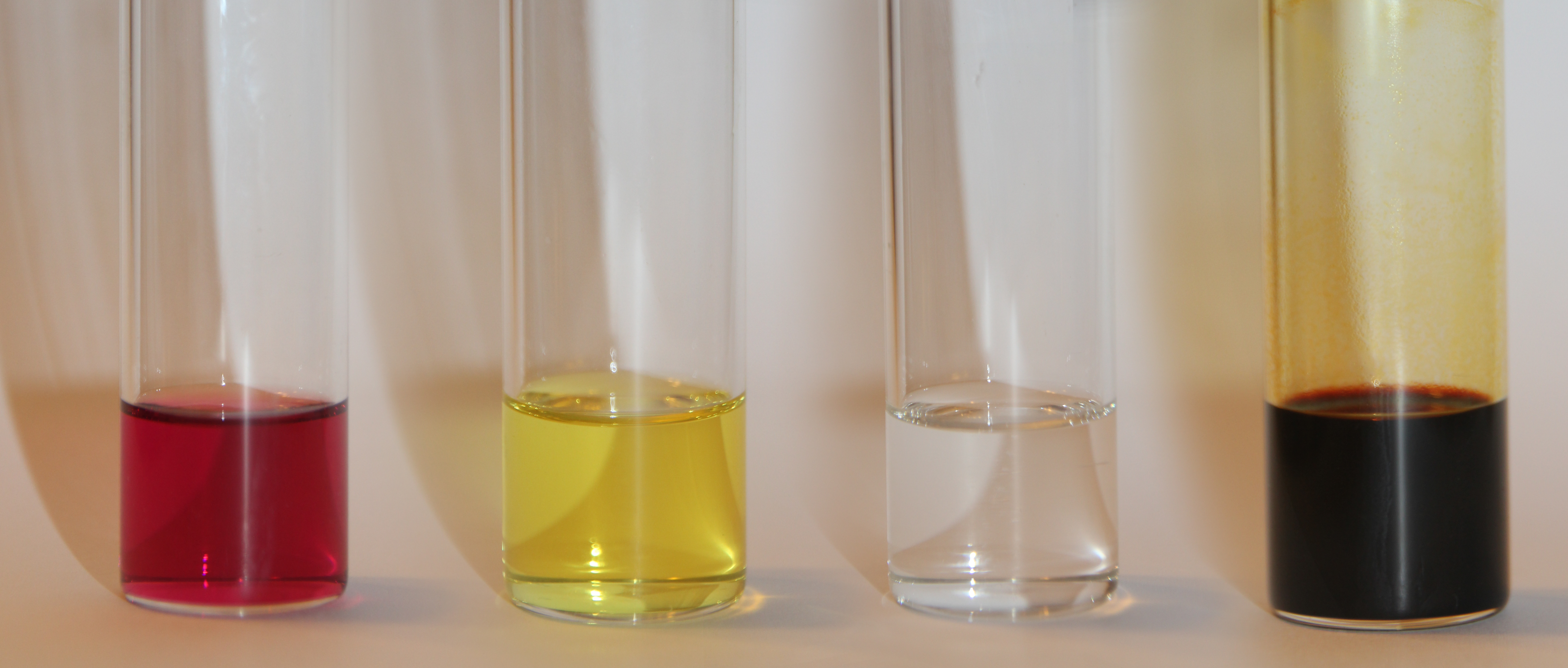 From left to right: (1) iodine dissolved in dichloromethane (2) a few seconds after excess triphenylphosphine was added (3) one minute after excess triphenylphosphine was added; solution contains [Ph3PI]+I- (4) immediately after excess iodine was added; solution contains [Ph3PI]+[I3]